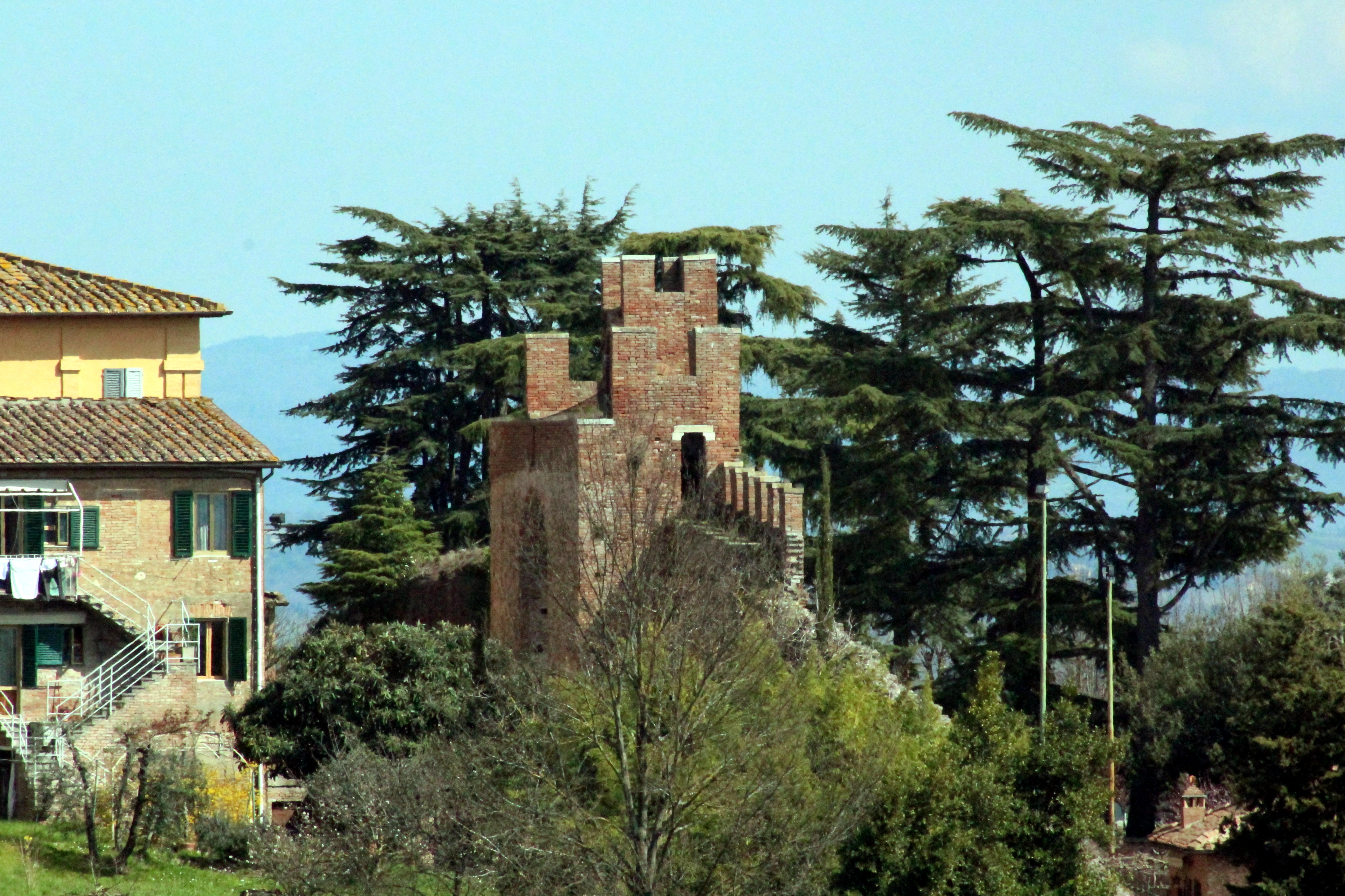 City Gate Porta Tufi in Siena, seen from West near Fonte delle Monache, Tuscany, Italy